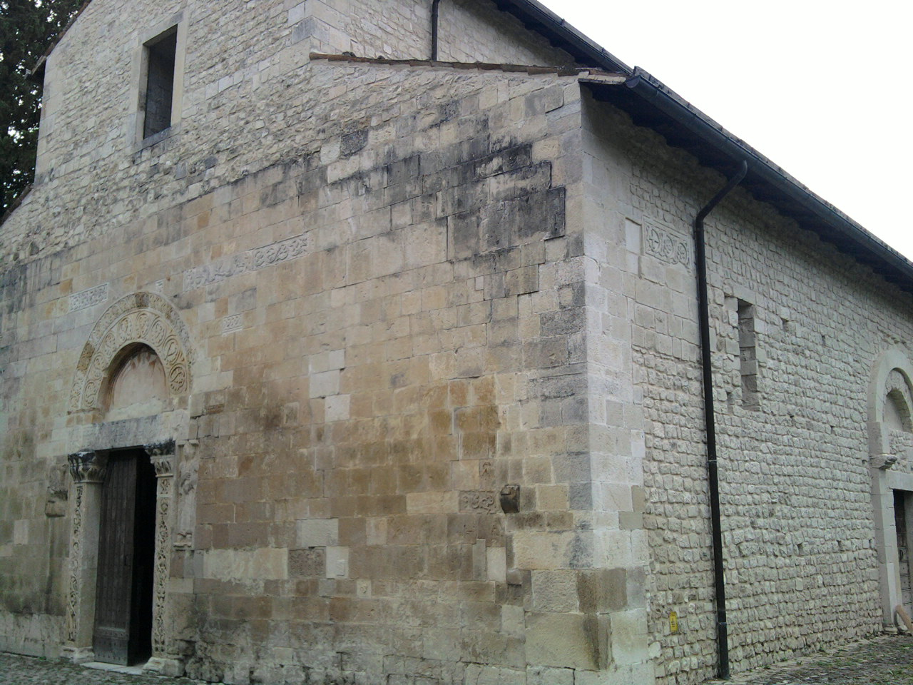 A picture of St. Peter ad oratorium church, Abruzzo, Italy.